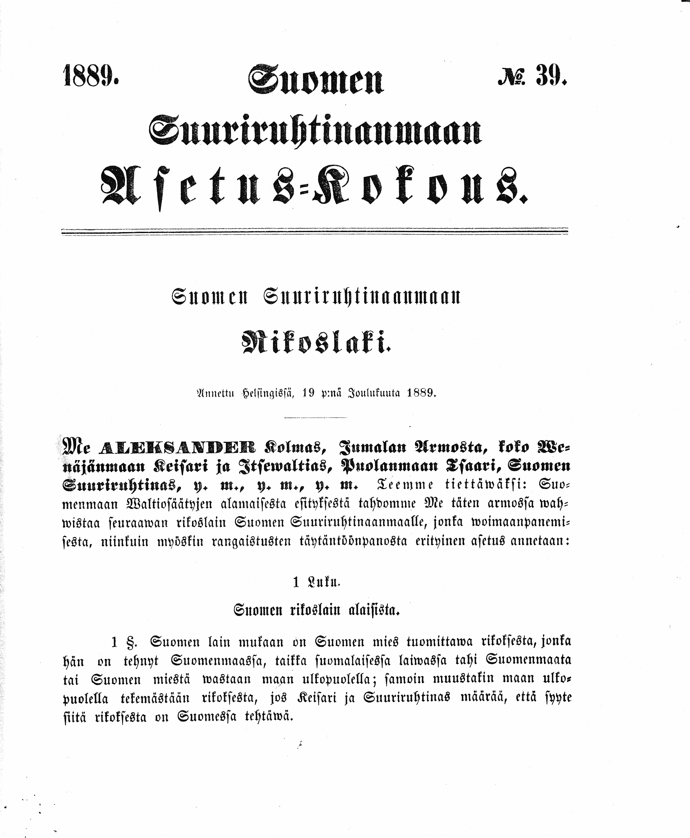 The first page of Finland's Criminal Code from 1889 in Finnish.